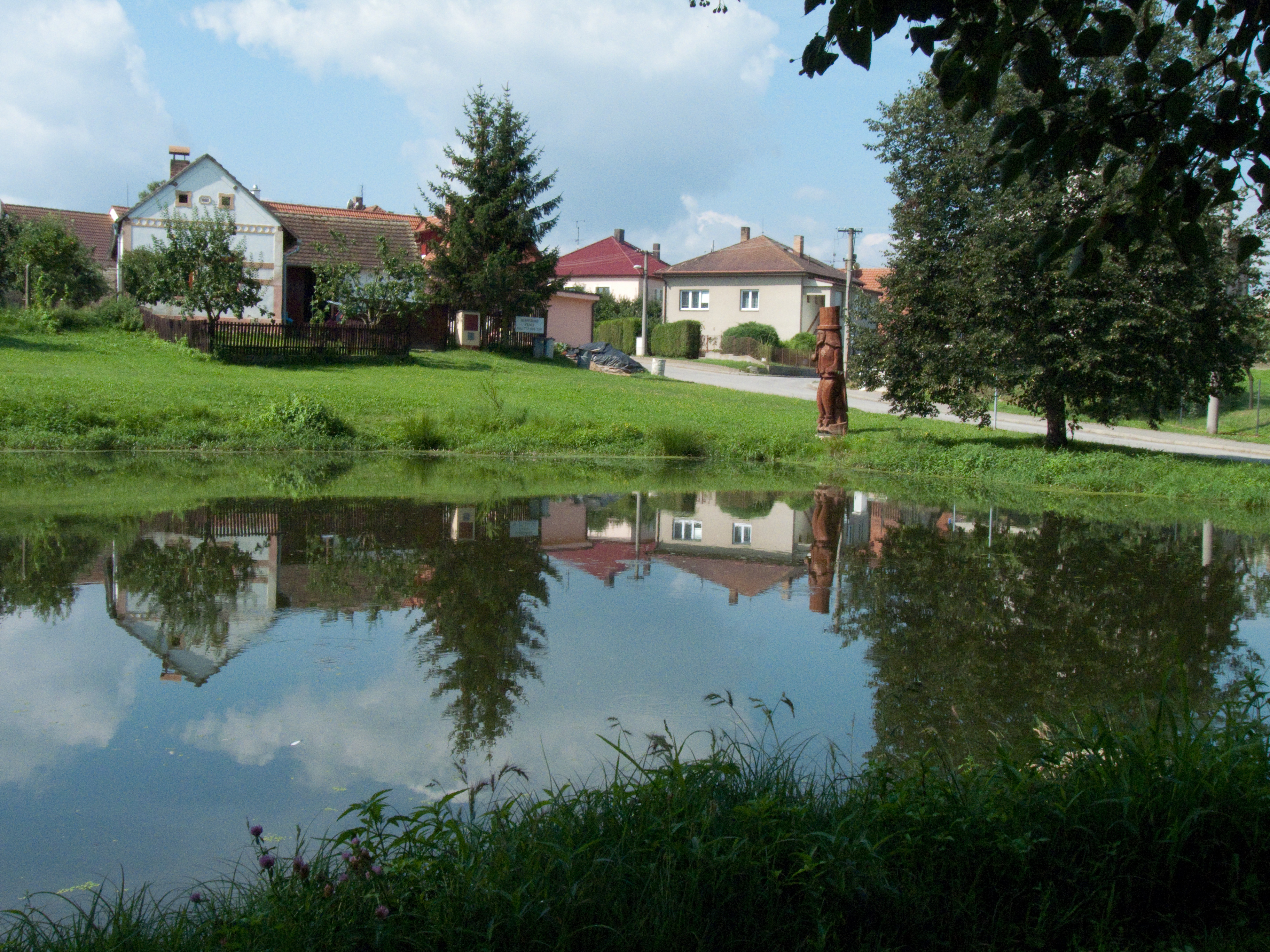 Horánská louže pond in Žabovřesky, České Budějovice district, Czech Republic